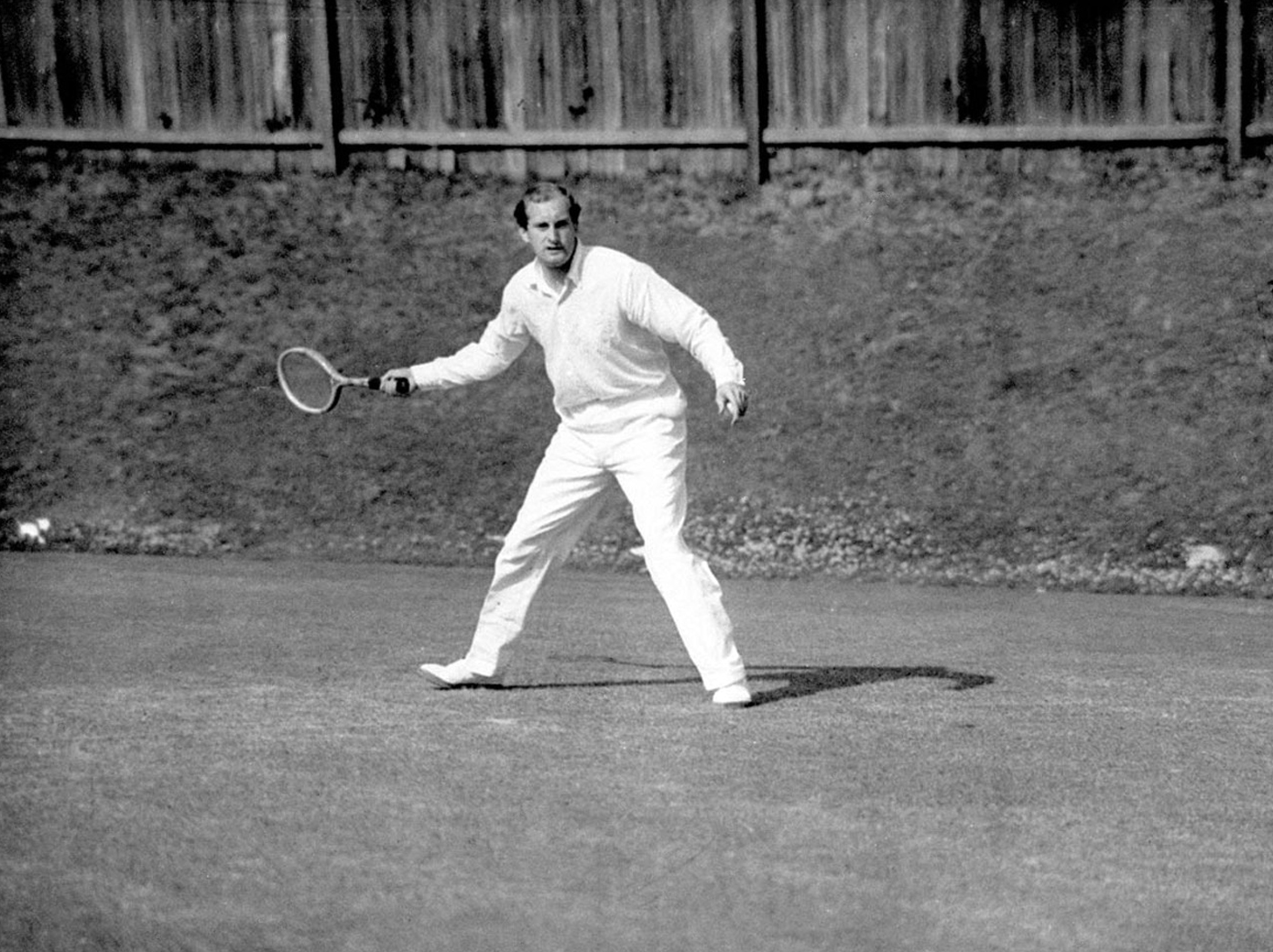 Czechoslovakian tennis player Rodrick Menzel at the White City Stadium in Sydney, Australia